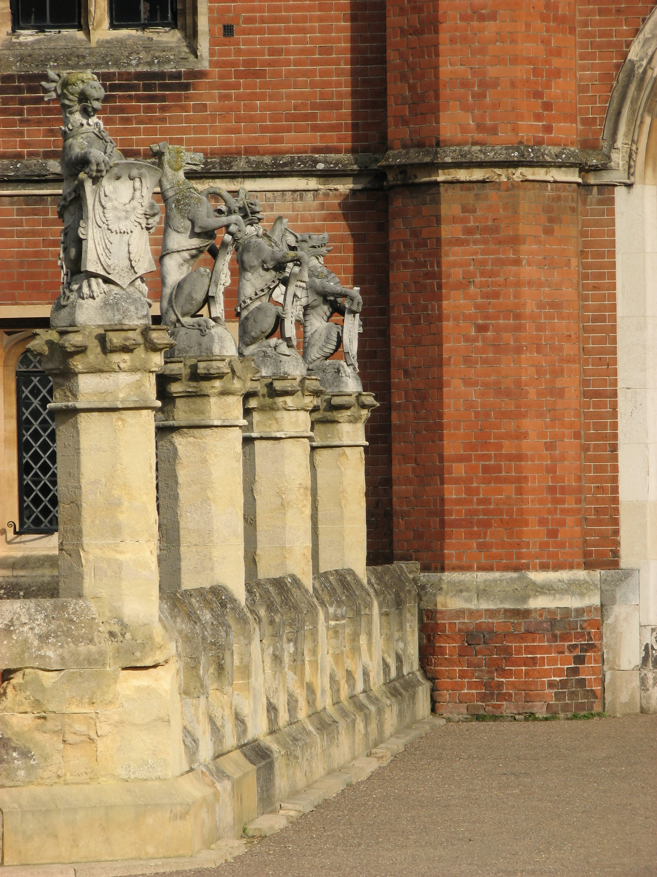 London - September 2008